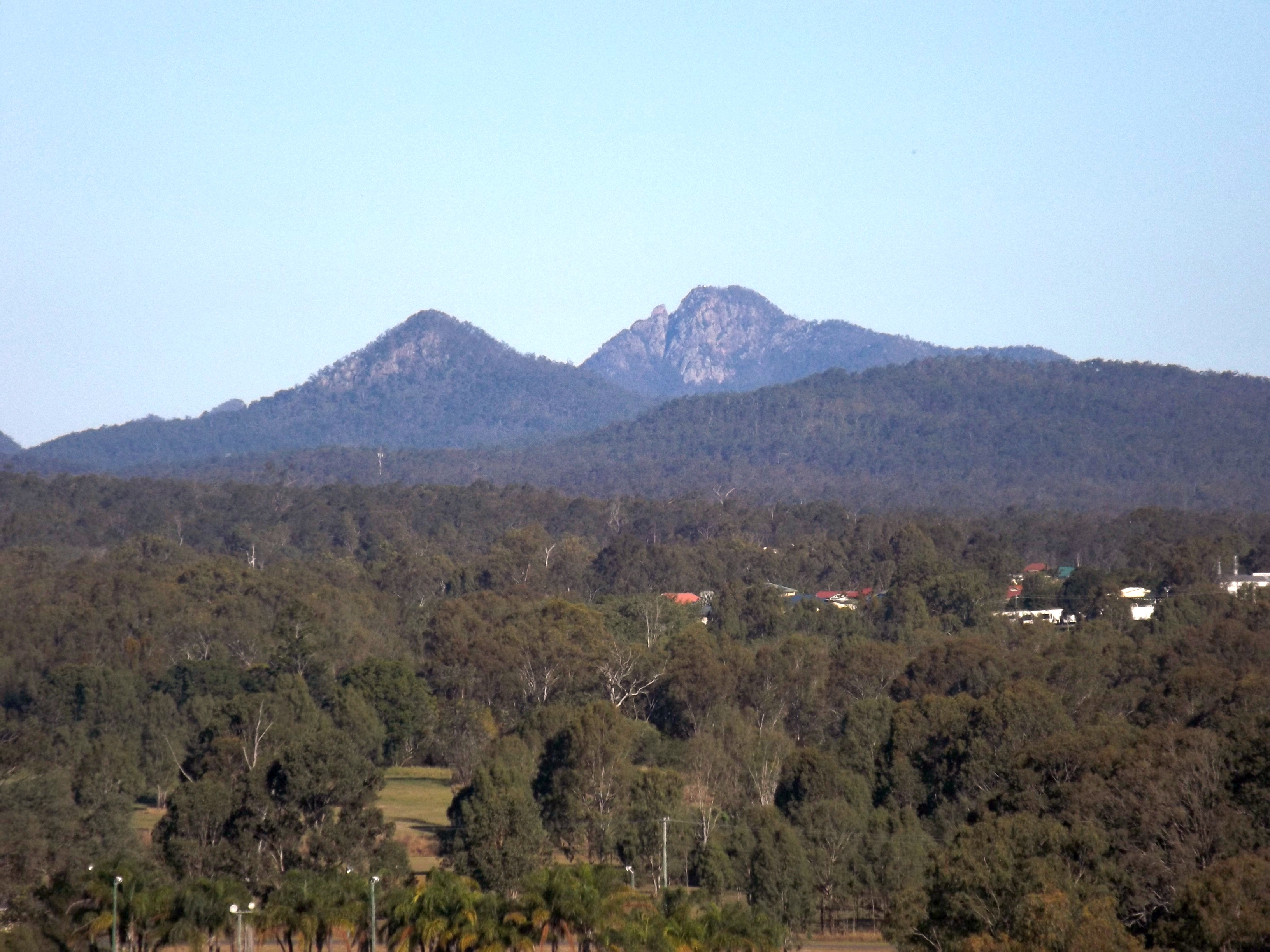 Photo of Flinders Peak (right), part of the Teviot Range, viewed from the suburb of Ipswich in Queensland, Australia. Mount Perry (left) in Lyons a locality in the City of Logan